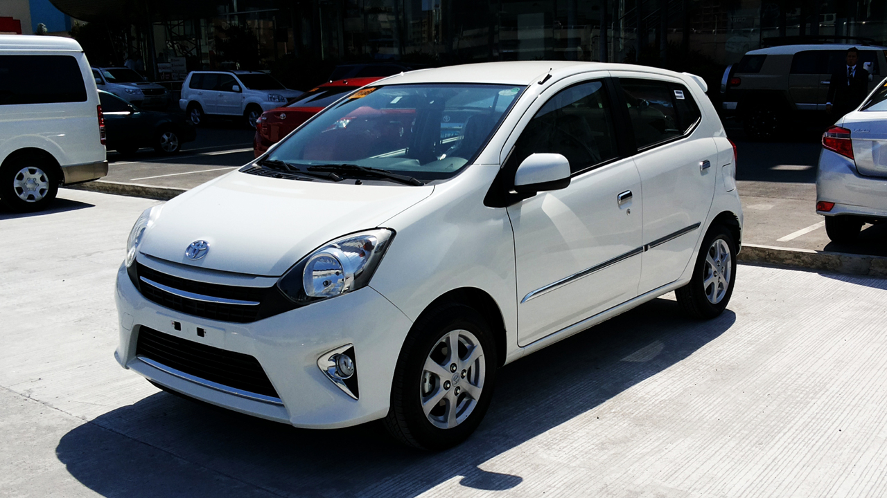 2014 Toyota Wigo G (Philippine model). Taken at Toyota Manila Bay, Pasay City, Philippines